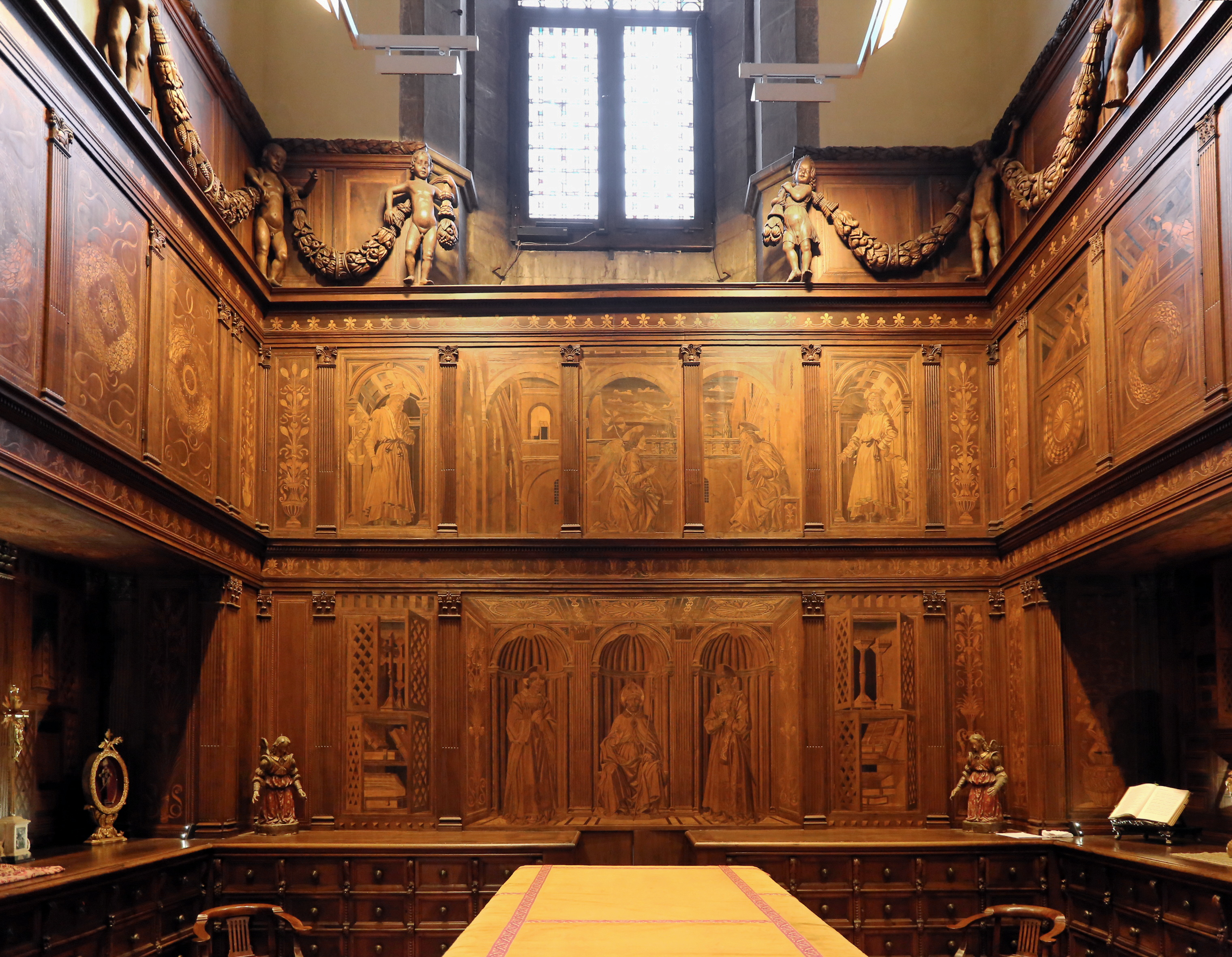 Santa Maria del Fiore (Florence) - Sagrestia delle Messe - Intarsia